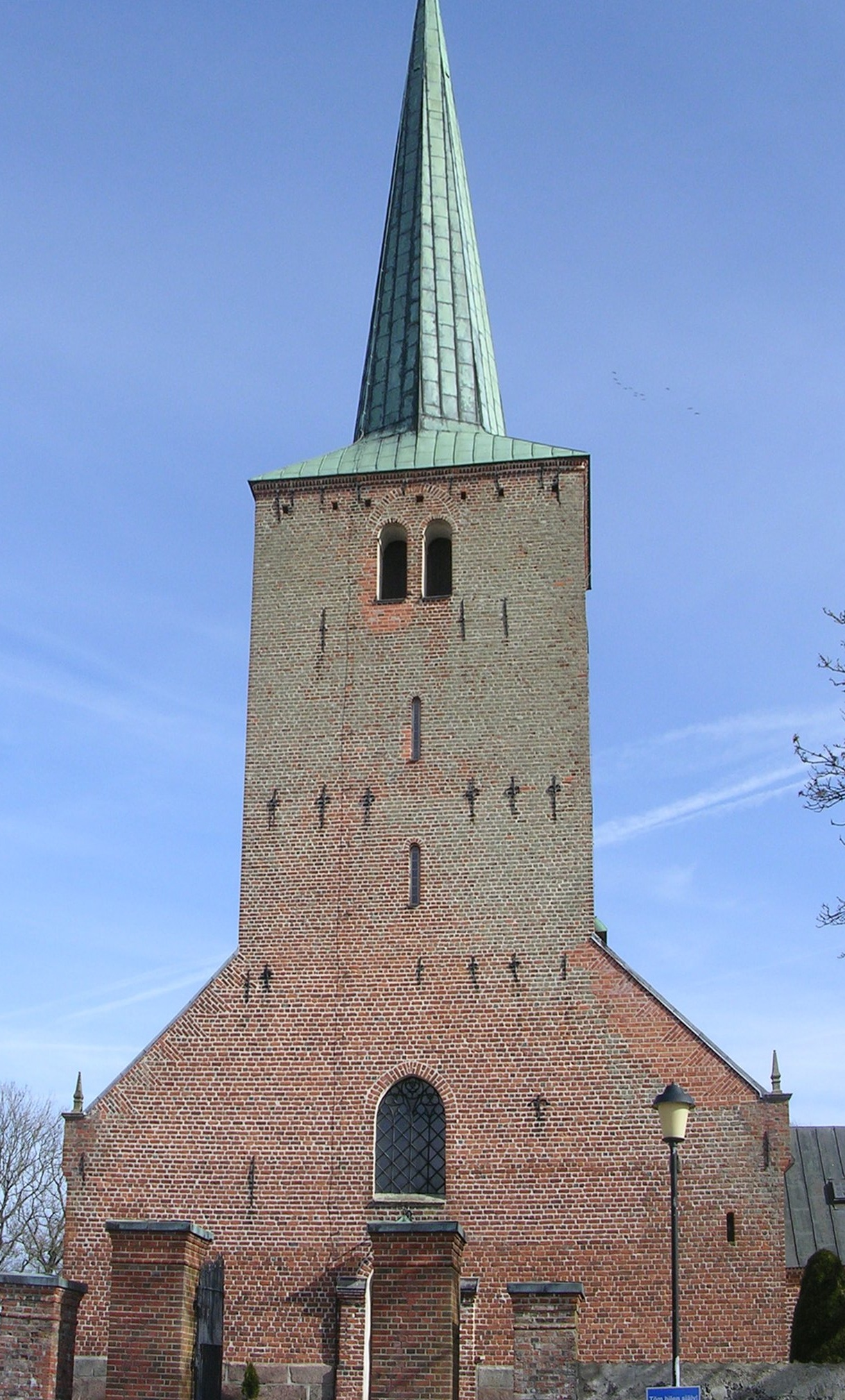 Genarp Church, Lund Municipality, Scania, Diocese of Lund, Sweden.